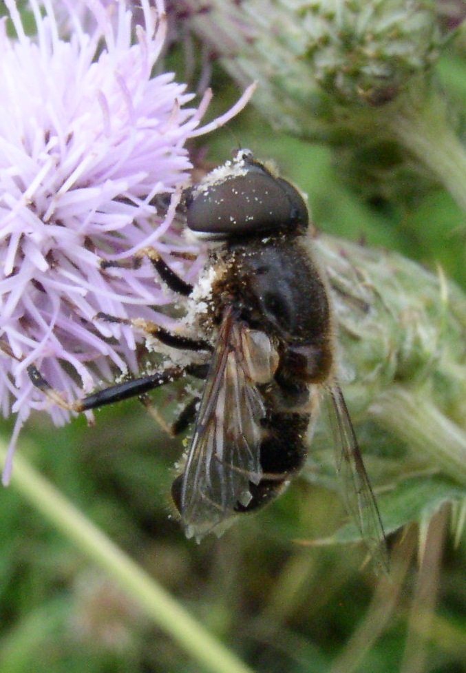 Male syrphid fly, Eristalis dimidiata, on thistle flower. Saint Agatha, Aroostook County, Maine, USA.